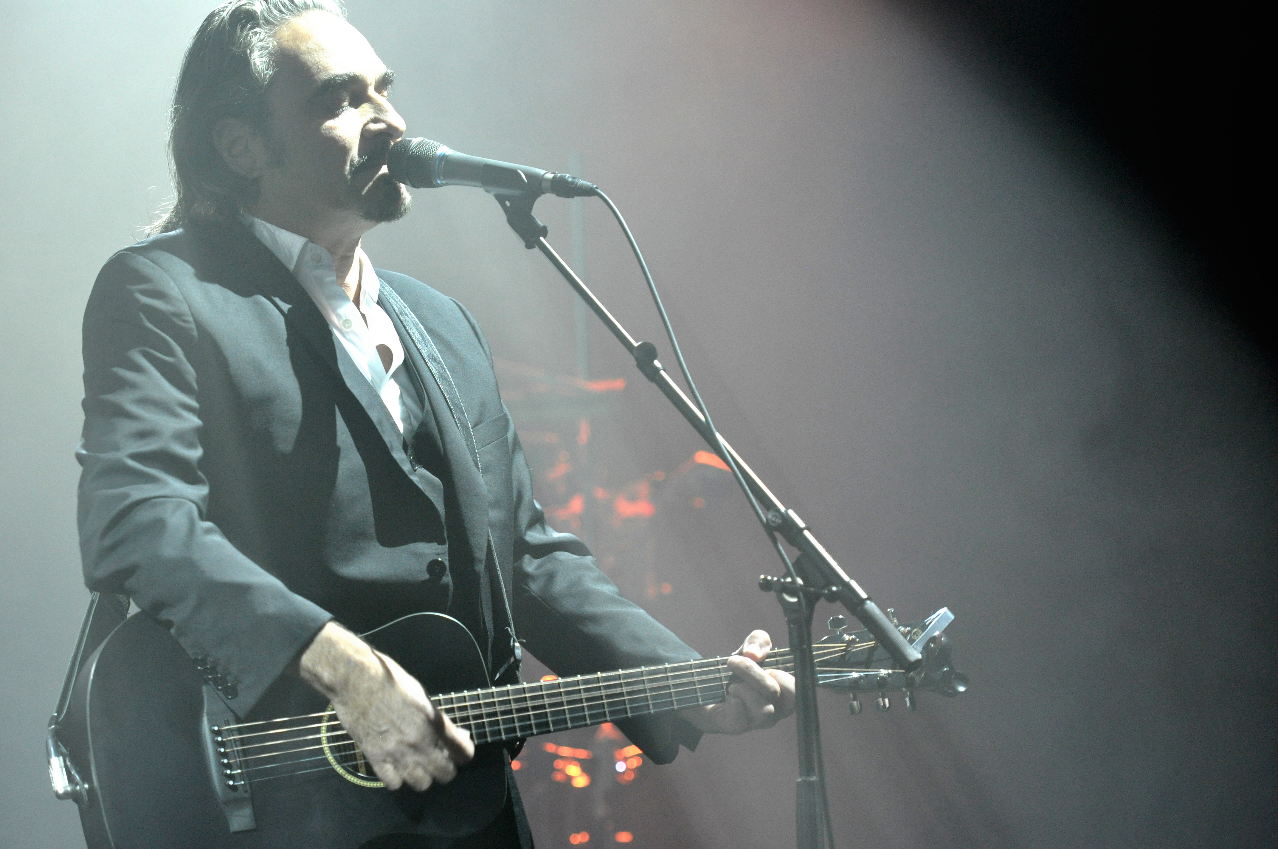 Stephan Eicher und die Automaten (SUI), 40th music festival 'Bardentreffen' 2015 at Nuremberg, Germany Festivalsommer This photo was created with the support of donations to Wikimedia Deutschland in the context of the CPB project "Festival Summer".